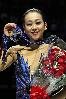 Mao Asada during the ladies medals ceremony at the Skate America 2013. She won the gold medal at this competition.